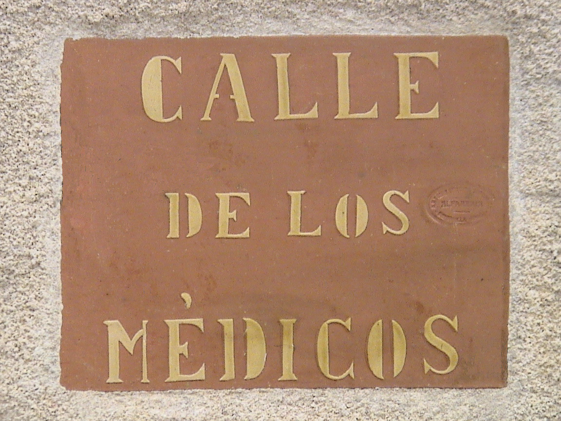 Street sign dedicated to physicians, Chinchilla, a town of province of Albacete (Spain).